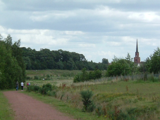 Brodsworth Community Woodland On the site of Brodsworth Colliery. Colliery site is now home to a country park and a light industrial estate. The spire of All Saints Church is prominent in the background.